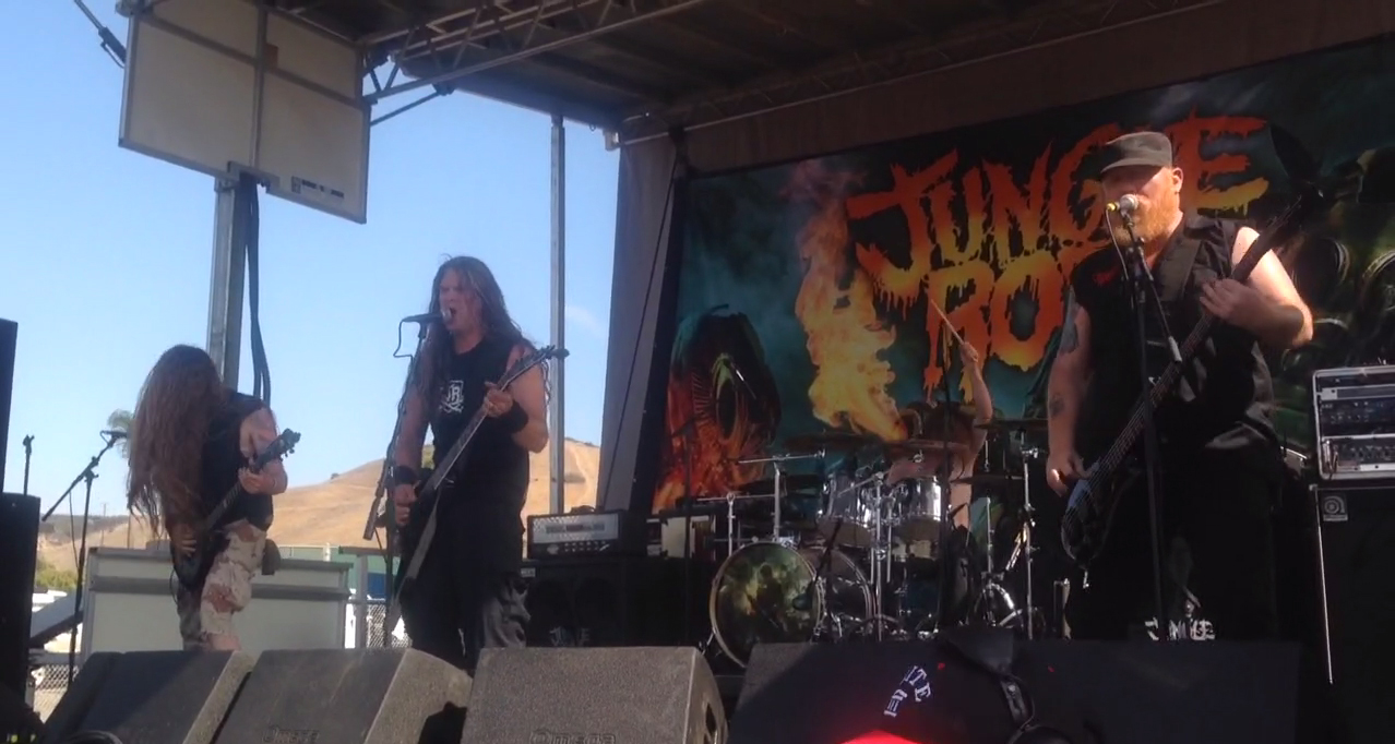 Jungle Rot performing in Chula Vista, CA on June 26th, 2015 during the Rockstar Energy Drink Mayhem Festival